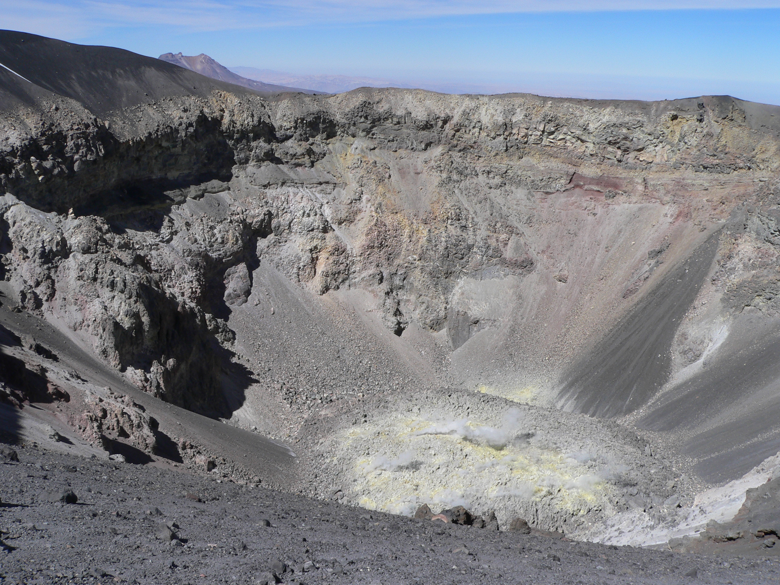 Crater of El Misti (Peru)